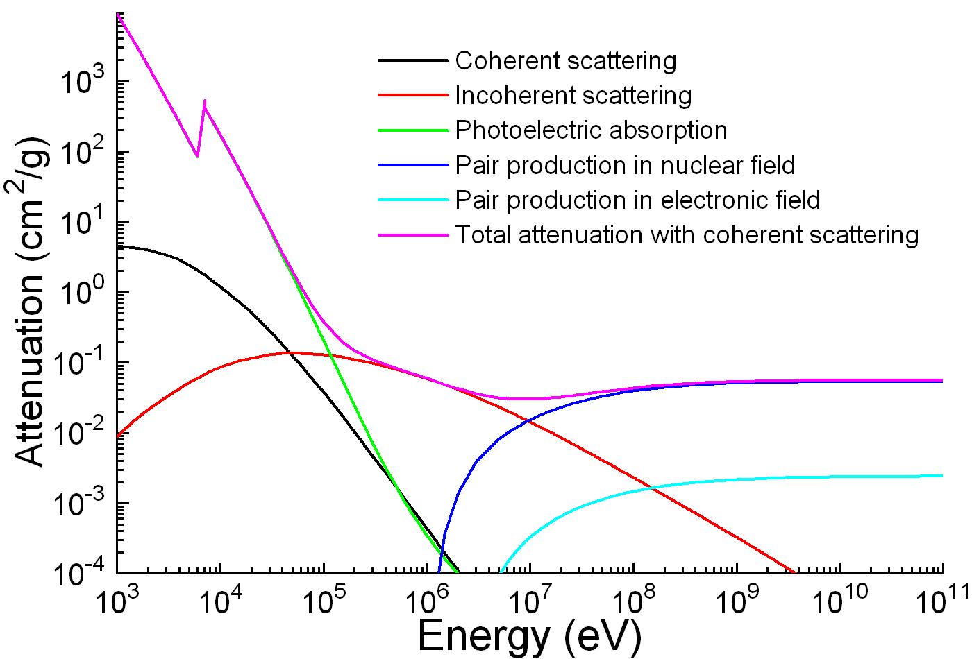 Mass Attenuation Coefficient of Iron with contributions sources of attenuation. Data from XCOM database